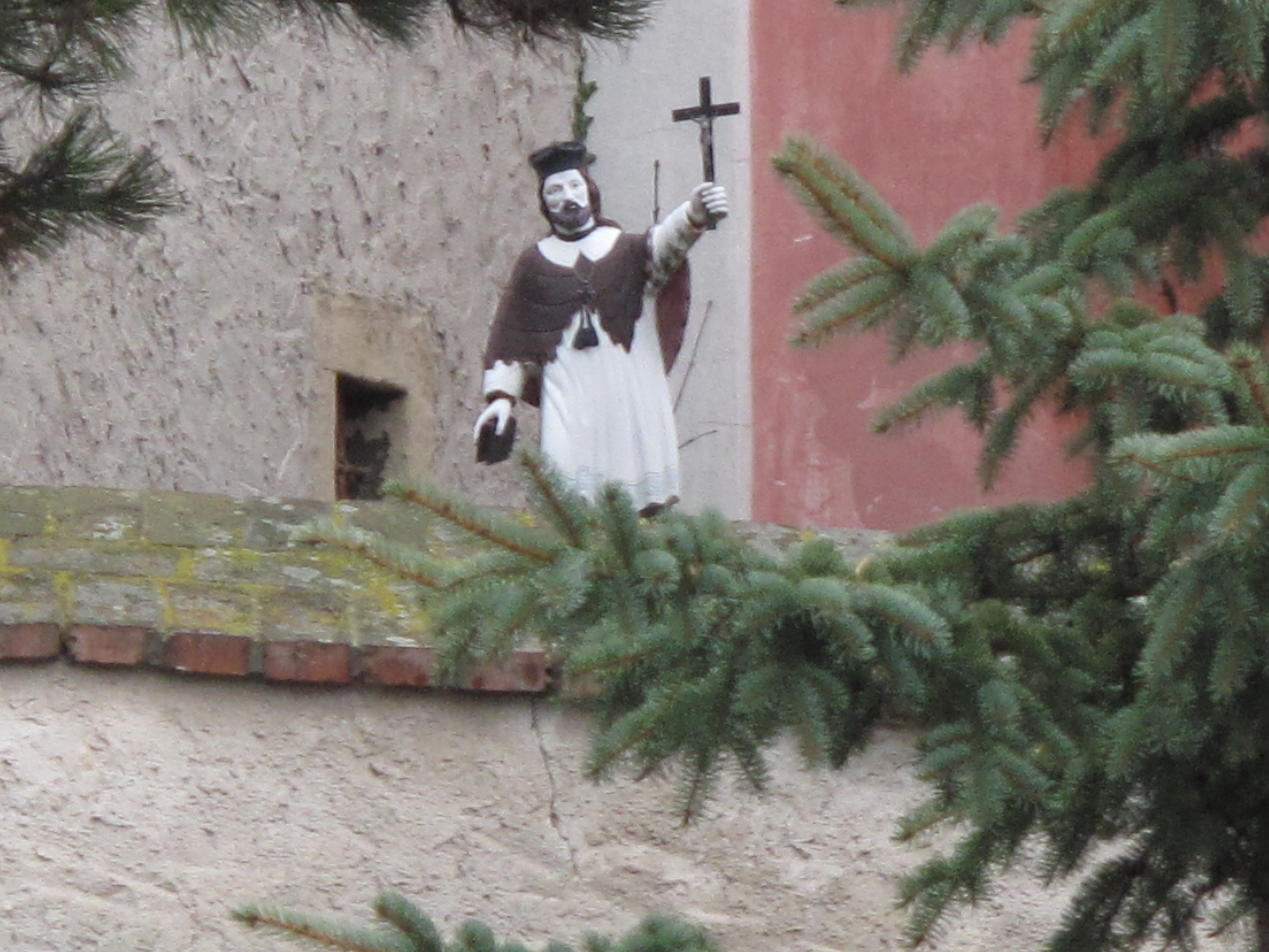 Statue of unidentified Saint in Čečelice village, Mělník District, Czech Republic.